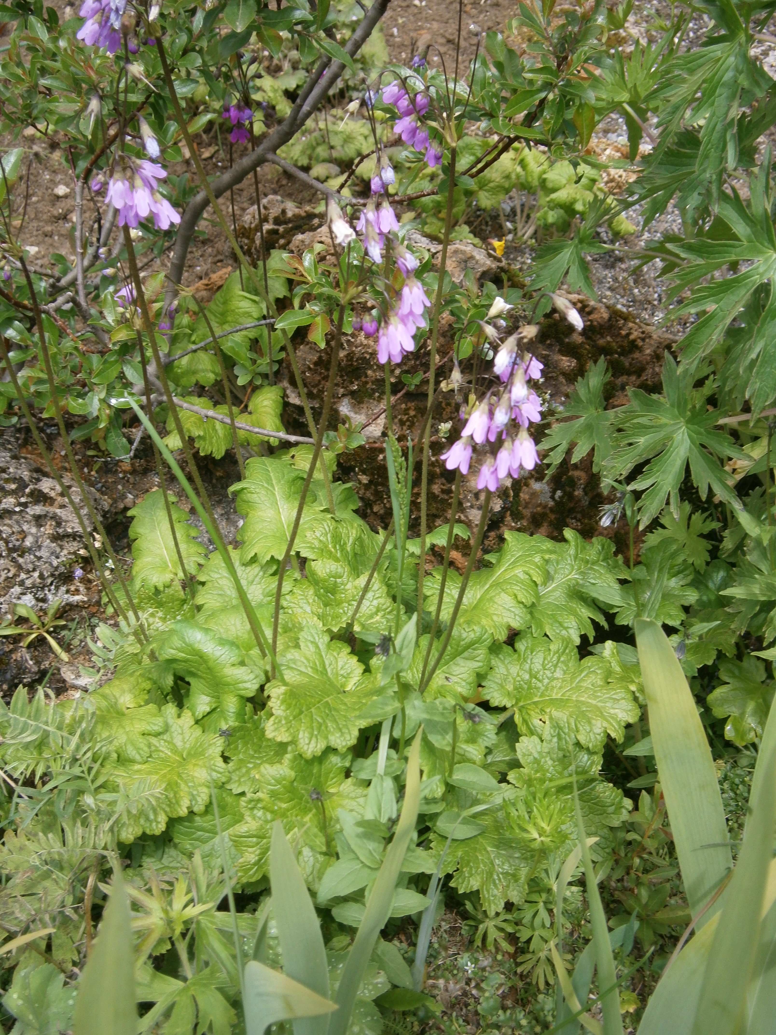 Cortusa matthioli in the Jardin Botanique Alpin du Lautaret